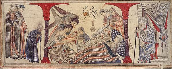 Mohammed's birth. Miniature illustration on vellum from the book Jami' al-Tawarikh (literally "Compendium of Chronicles" but often referred to as The Universal History or History of the World), by Rashid al-Din, published in Tabriz, Persia, 1307 A.D. Now in the collection of the Edinburgh University Library, Scotland.